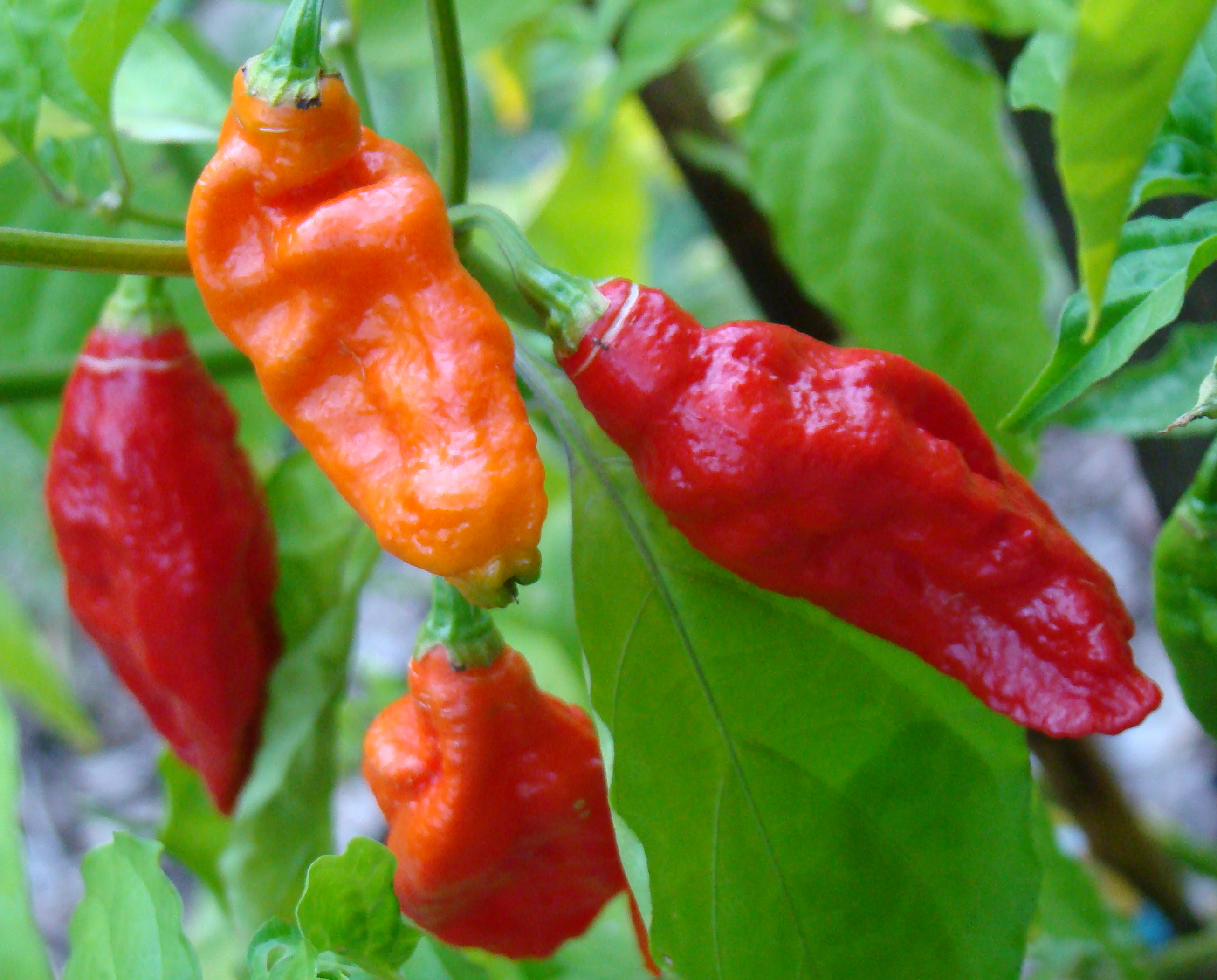 Peppers were grown in 3-gallon pots in the Ghosh Grove, Rockledge, Florida, USA from seeds bought from the Chili Pepper Institute, New Mexico State University, Las Cruces, New Mexico, USA.